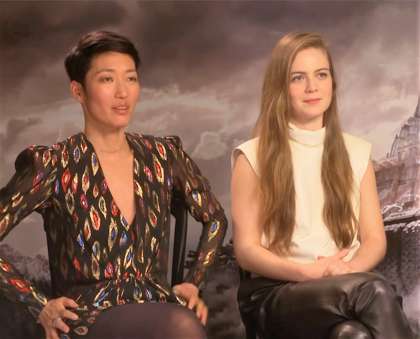 Mortal Engines Cast Go Speed Dating | MTV Movies We date Robert Sheehan, Leila George, Jihae, and Hera Hilmar as they reveal deleted scenes and funniest moments on set. Get social with MTV @ 💋 Twitter: 🍺 Instagram: 💅 Tumblr: 🍿 Facebook: 🎷 Official